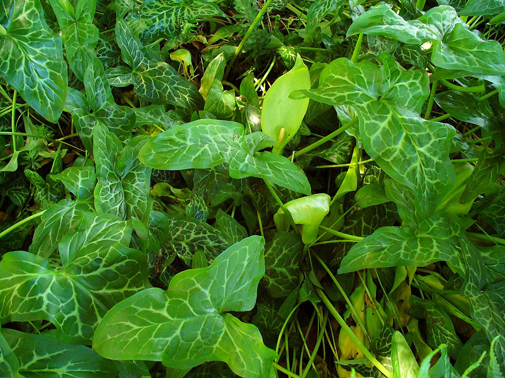 Arum italicum, Araceae, Cuckoo Pint, Italian Lords-and-Ladies, habitus; Stadtgarten Karlsruhe, Germany. The fresh subterranean parts are used in homeopathy as remedy: Arum italicum (Arum-i.)